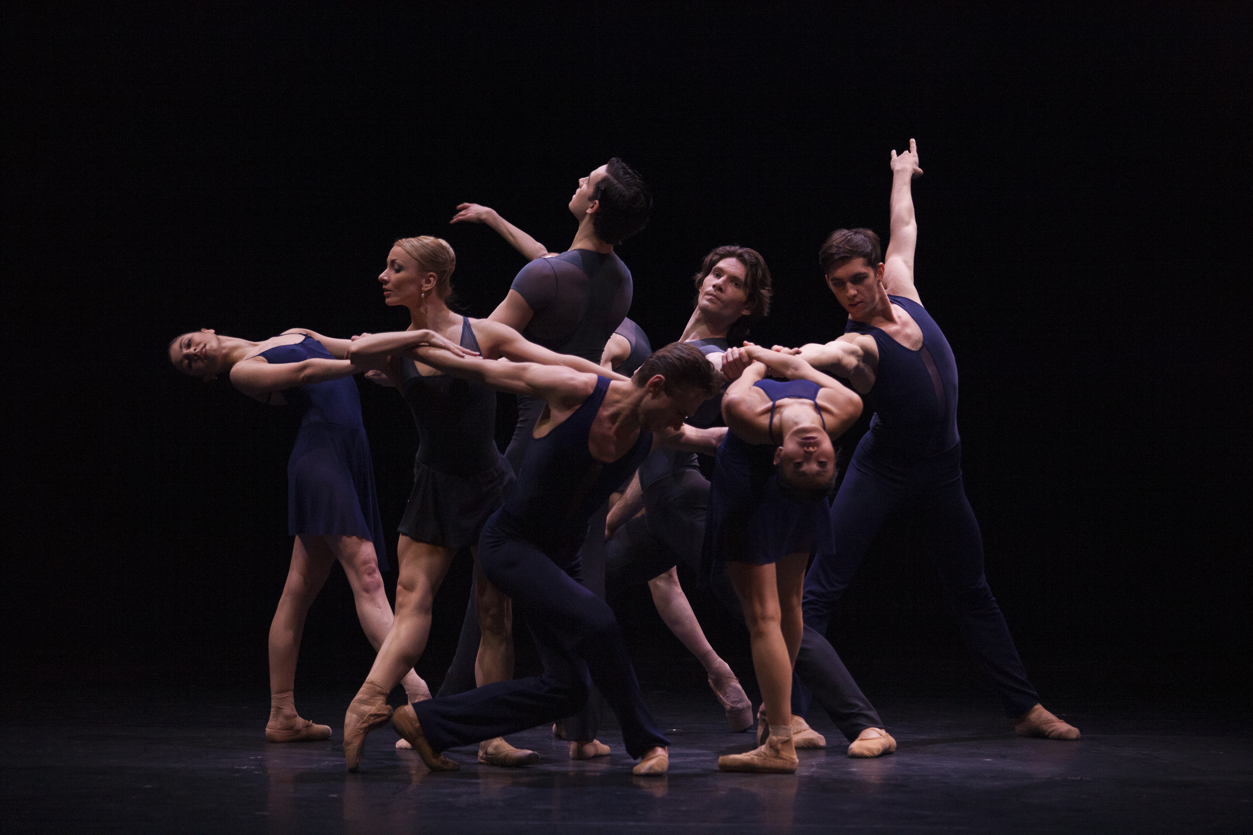 "Adagio&Scherzo" ballet by Krzysztof Pastor, Polish National Ballet, dancers: Maria Żuk, Aleksandra Liashenko, Robin Kent, Maksim Woitiul, Vladimir Yaroshenko, Yuka Ebihara & Paweł Koncewoj.